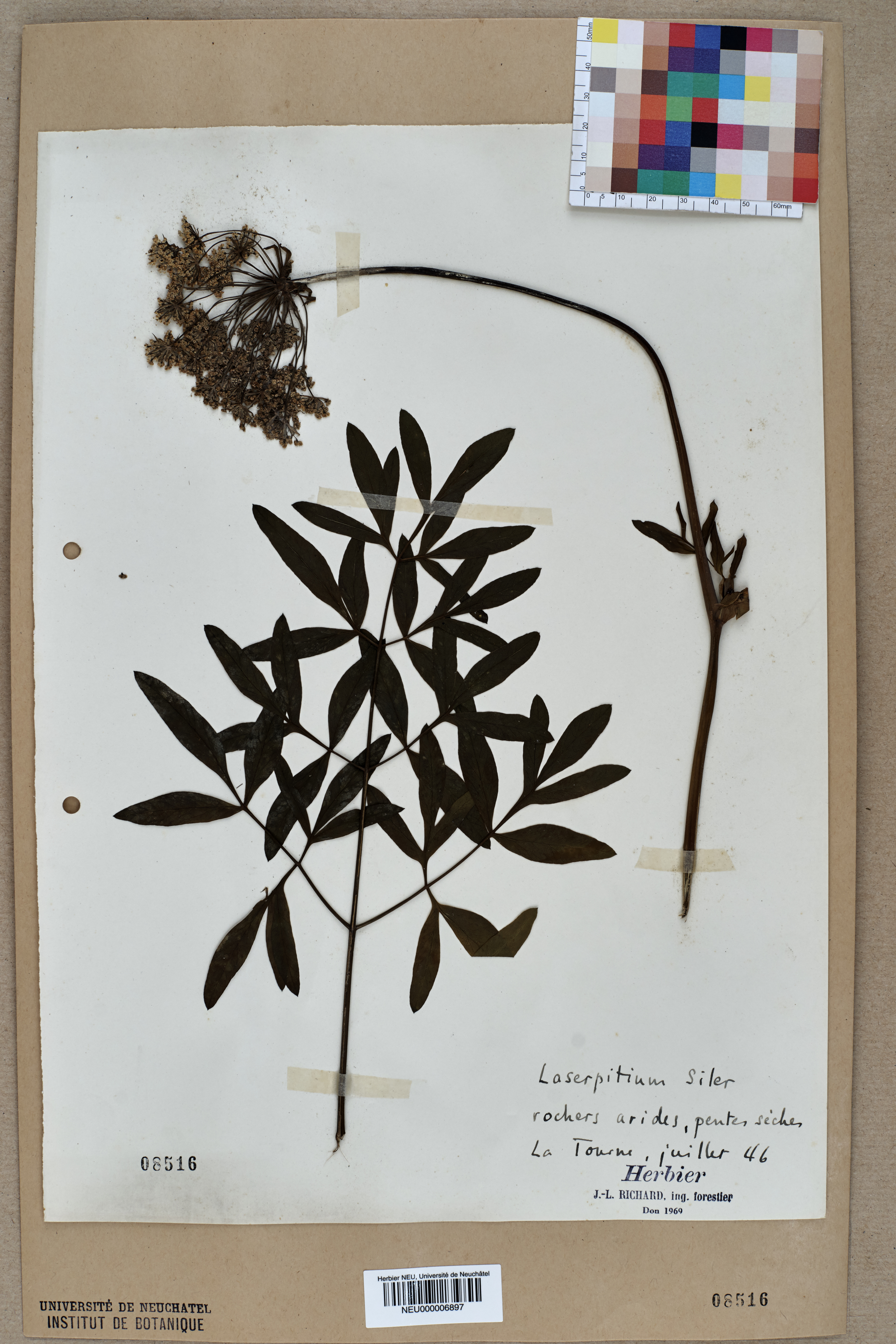 Dried pressed specimen of Laserpitium siler